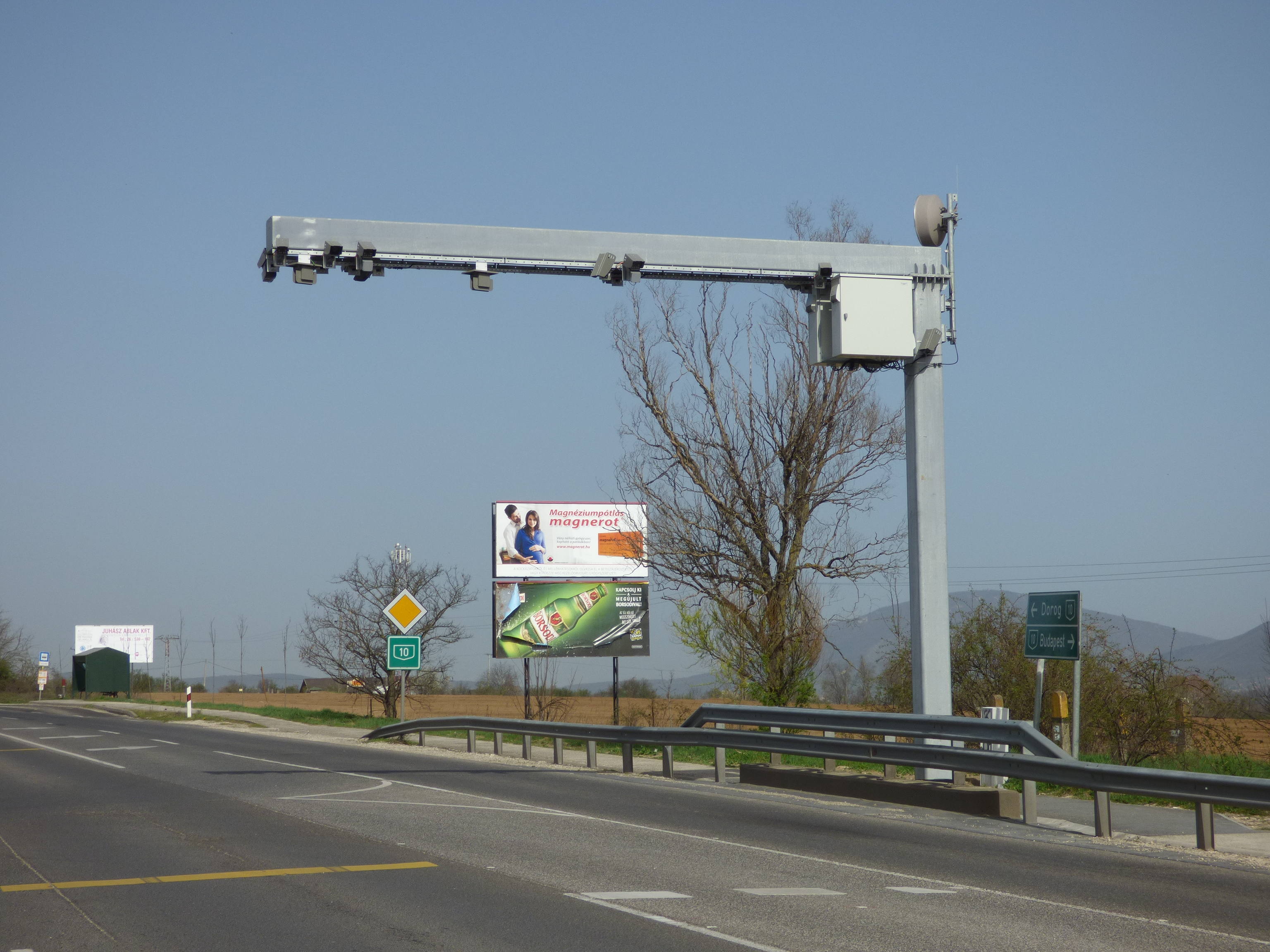 VÉDA ellenőrző pont az üzembe helyezés napján a 10-es főút solymári szakaszán